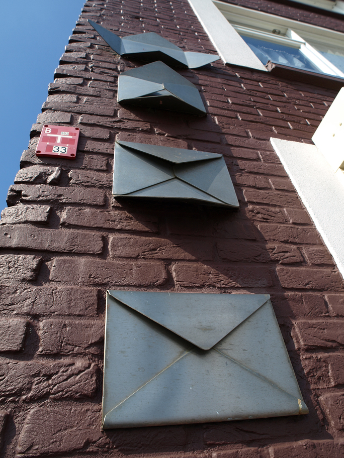 Jan Haas - Monument voor briefwisseling Aagje Deken en Betje Wolff